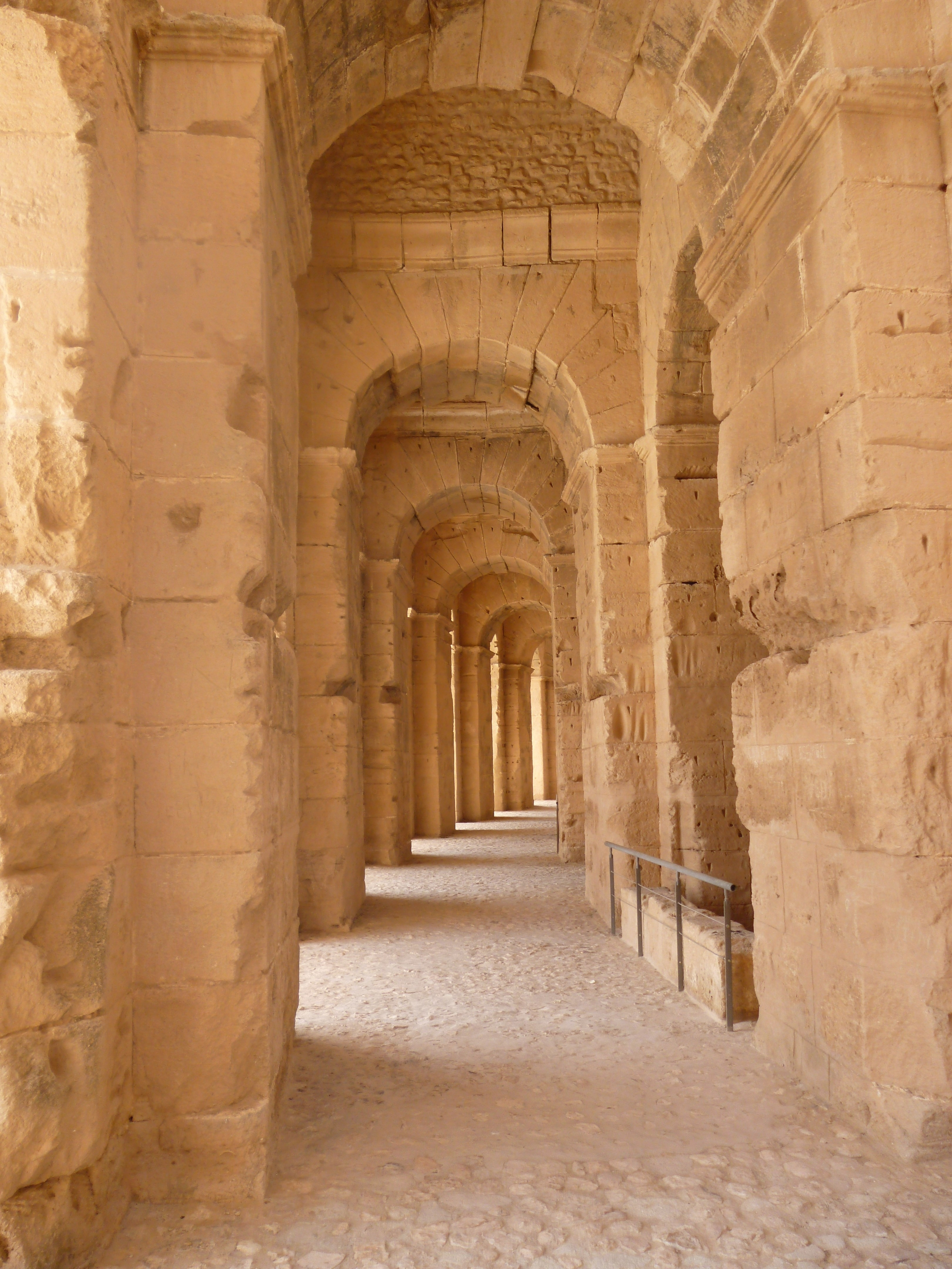 Amphitheatre of El Jem (Tunisia)